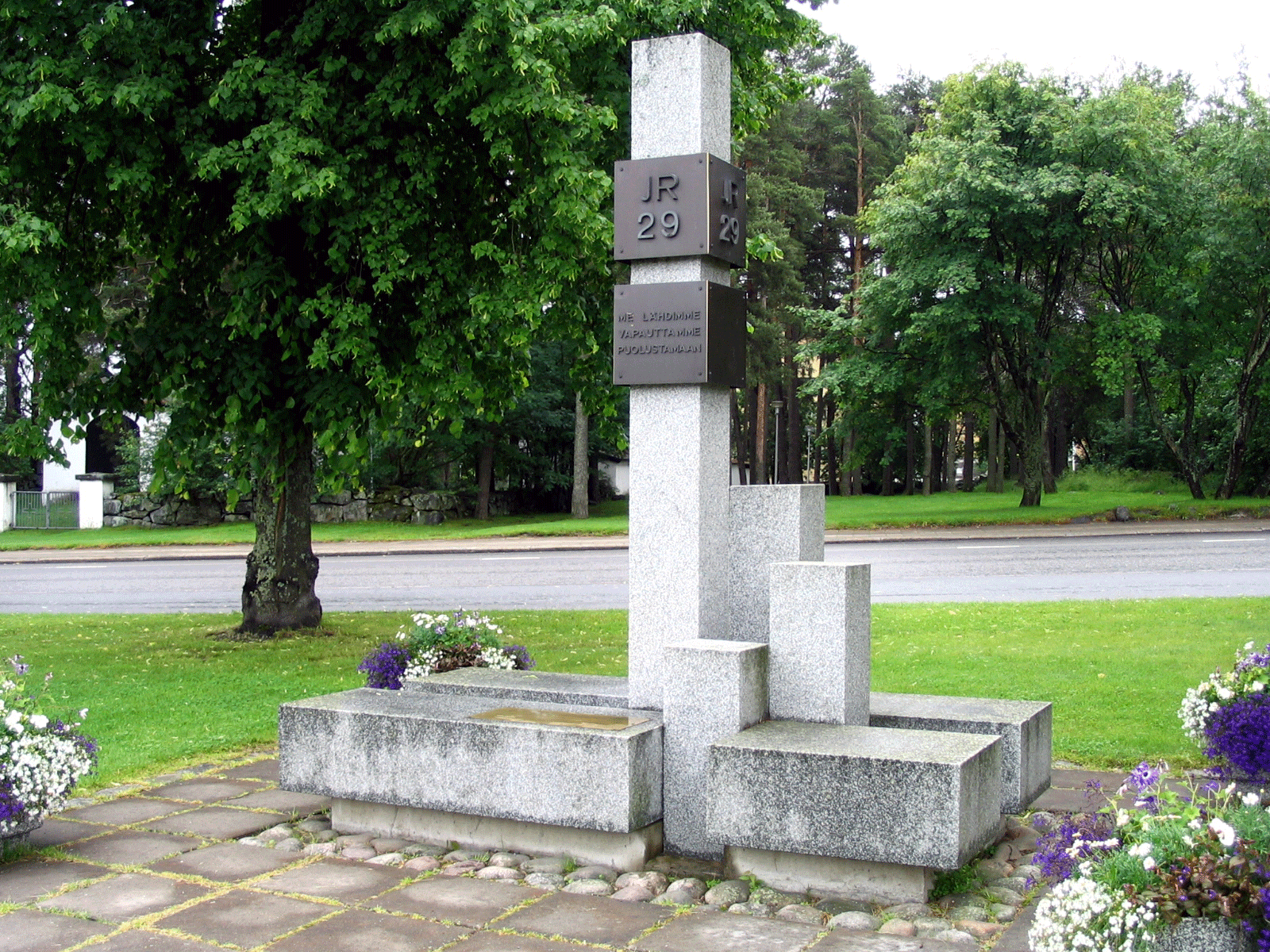 The memorial of finnish Continuation war infantry regiment, Jalkaväkirykmentti 29, in Kokkola, Finland.